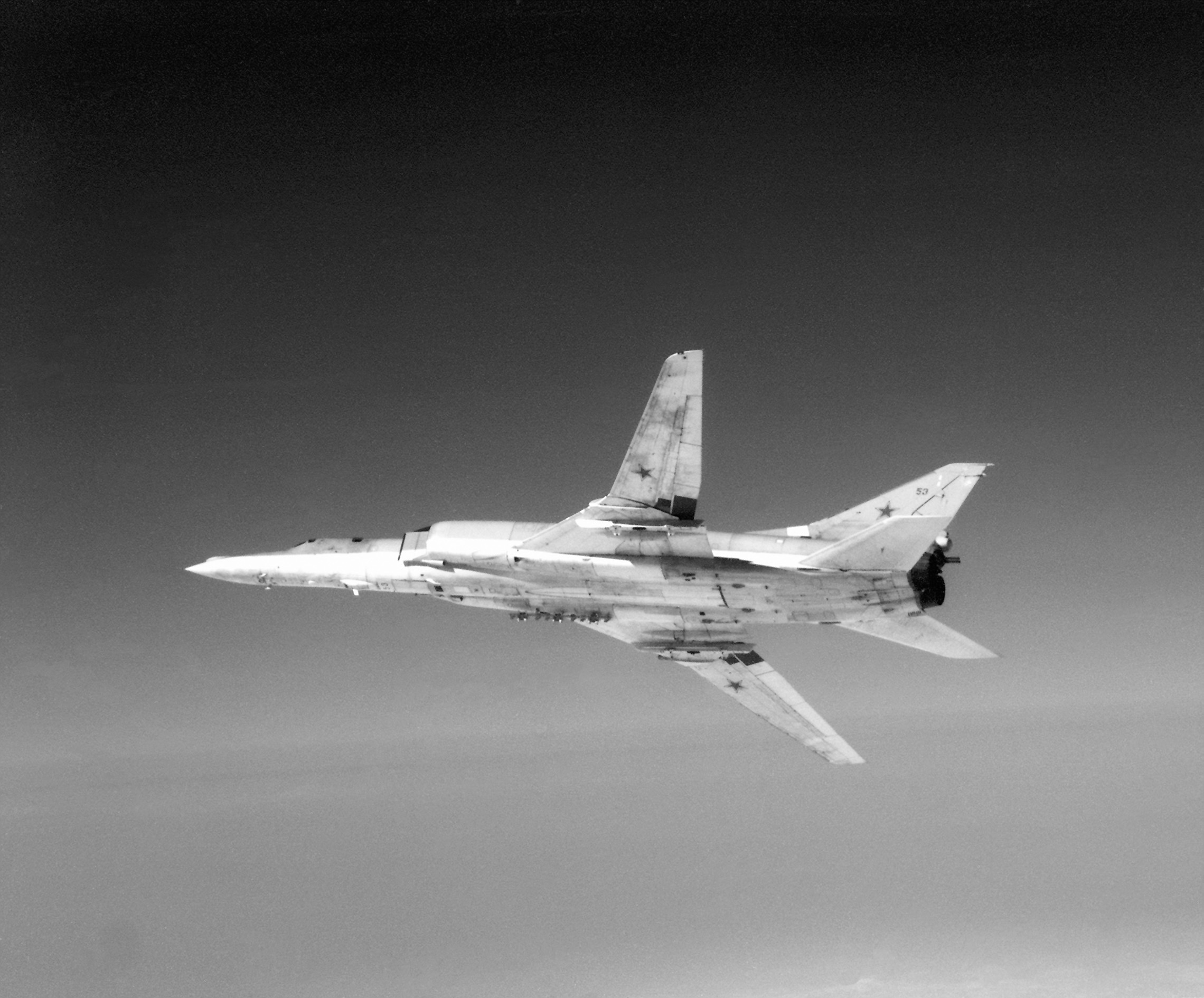 A left underside view of a Soviet Tu-22M Backfire-B bomber aircraft in flight.